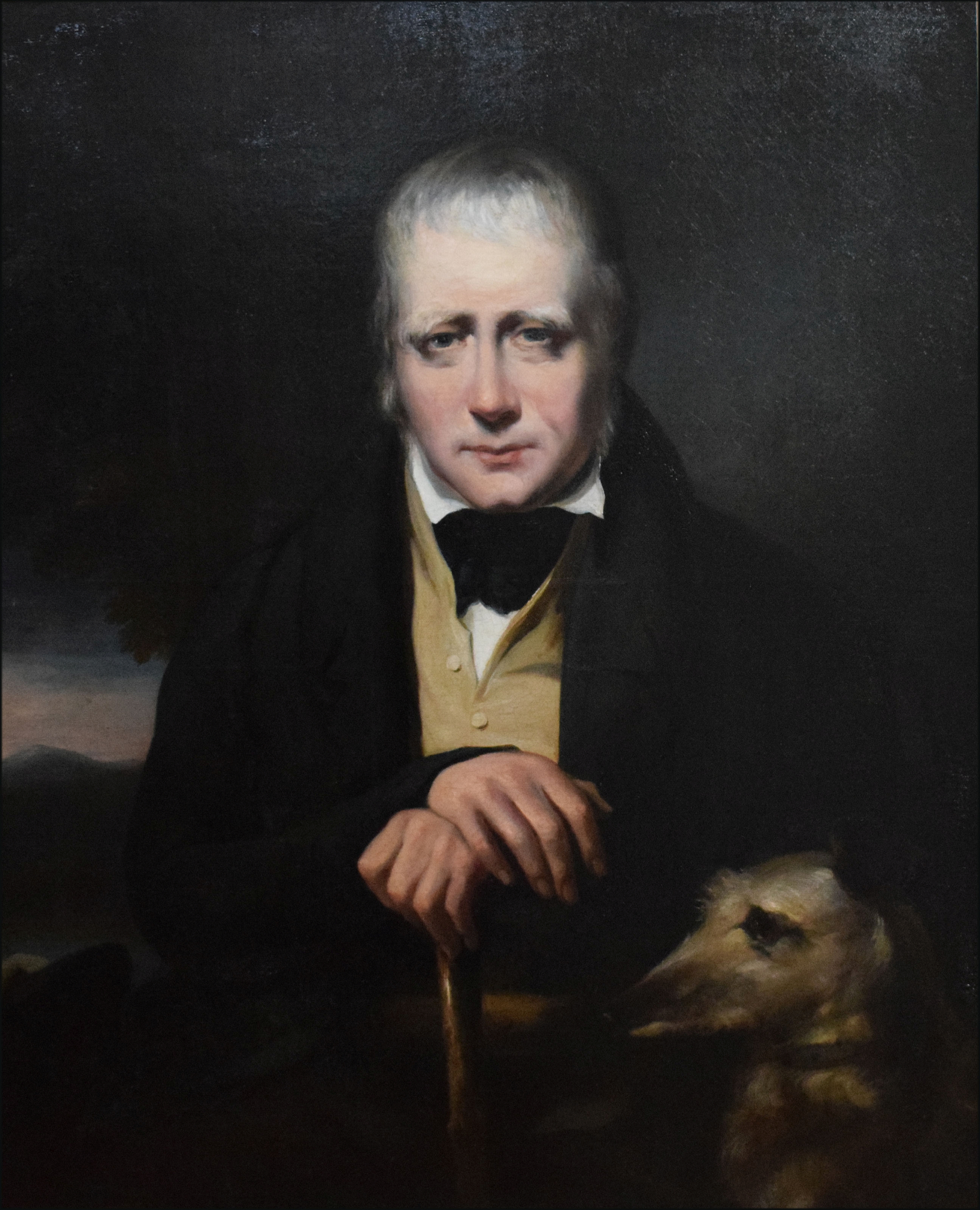 Sir Walter Scott and his deerhound "Bran" painted by Sir John Watson Gordon in 1830.